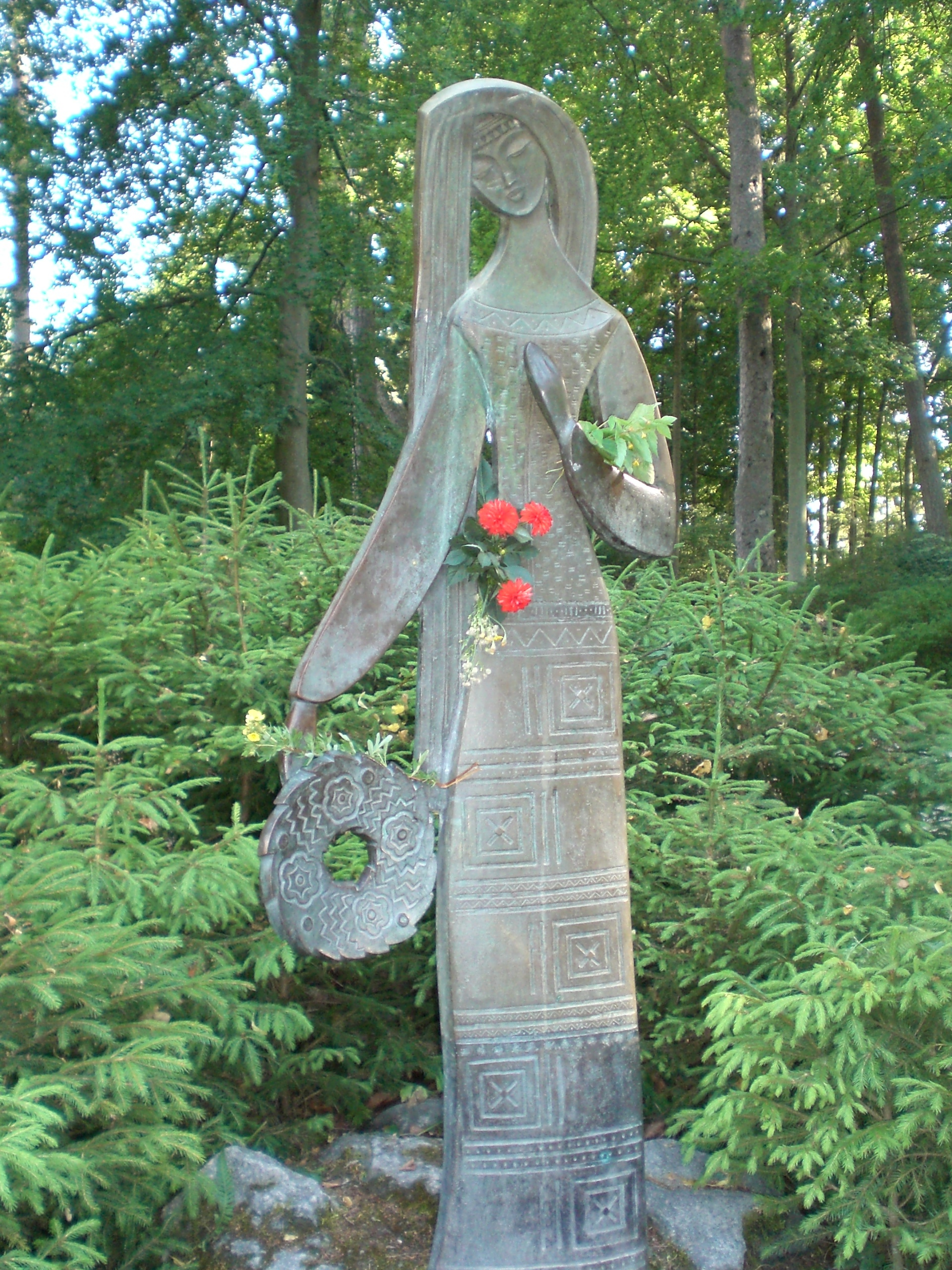 The sculpture "To you, Birutė" by Konstancija Petrikaitė-Tulienė at Birutė's Hill in the botanical garden of Palanga (Lithuania)